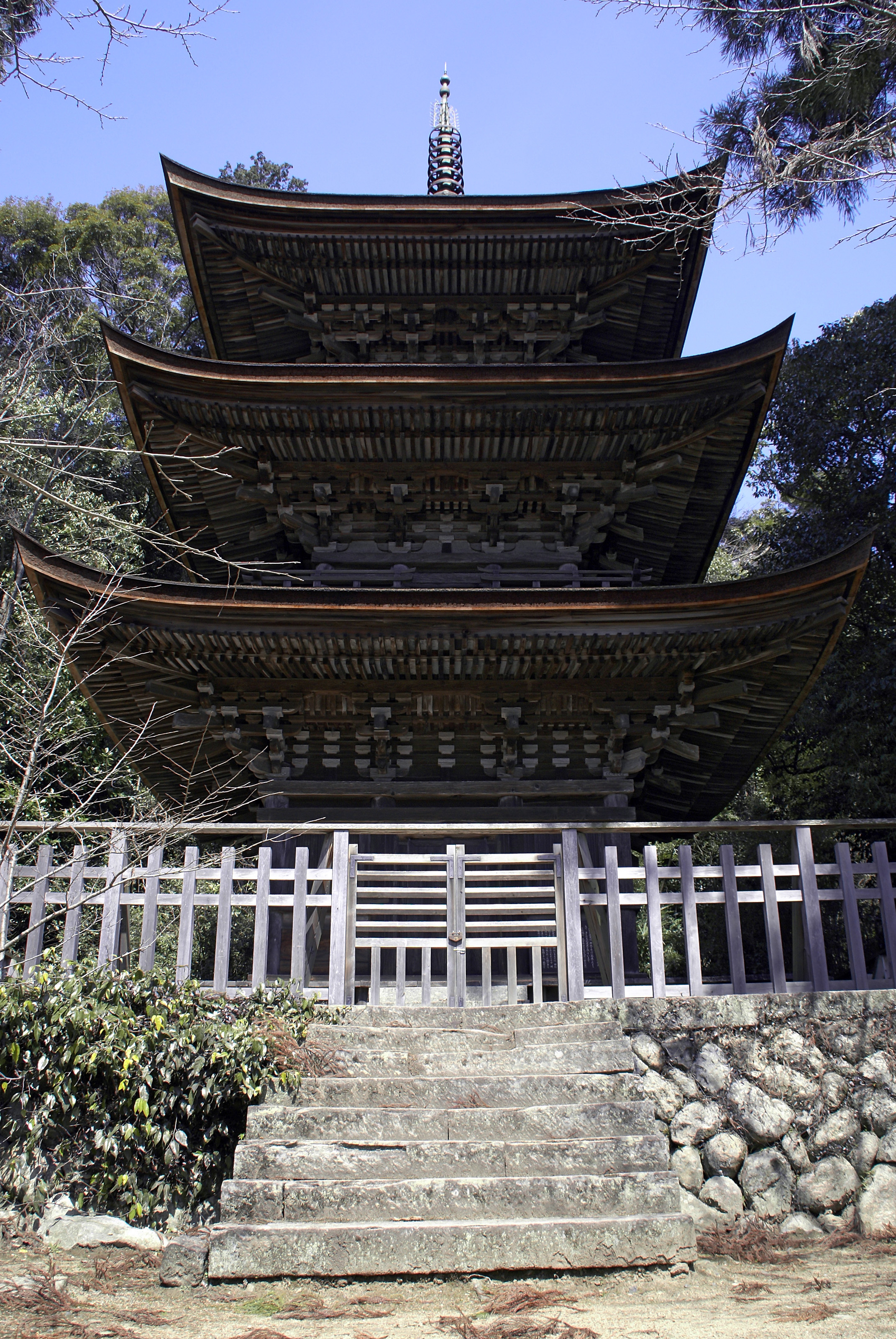 Rokujo_hachiman-jinja's Pagoda is Japan's Important Cultural Property in Kobe, Hyogo prefecture, Japan